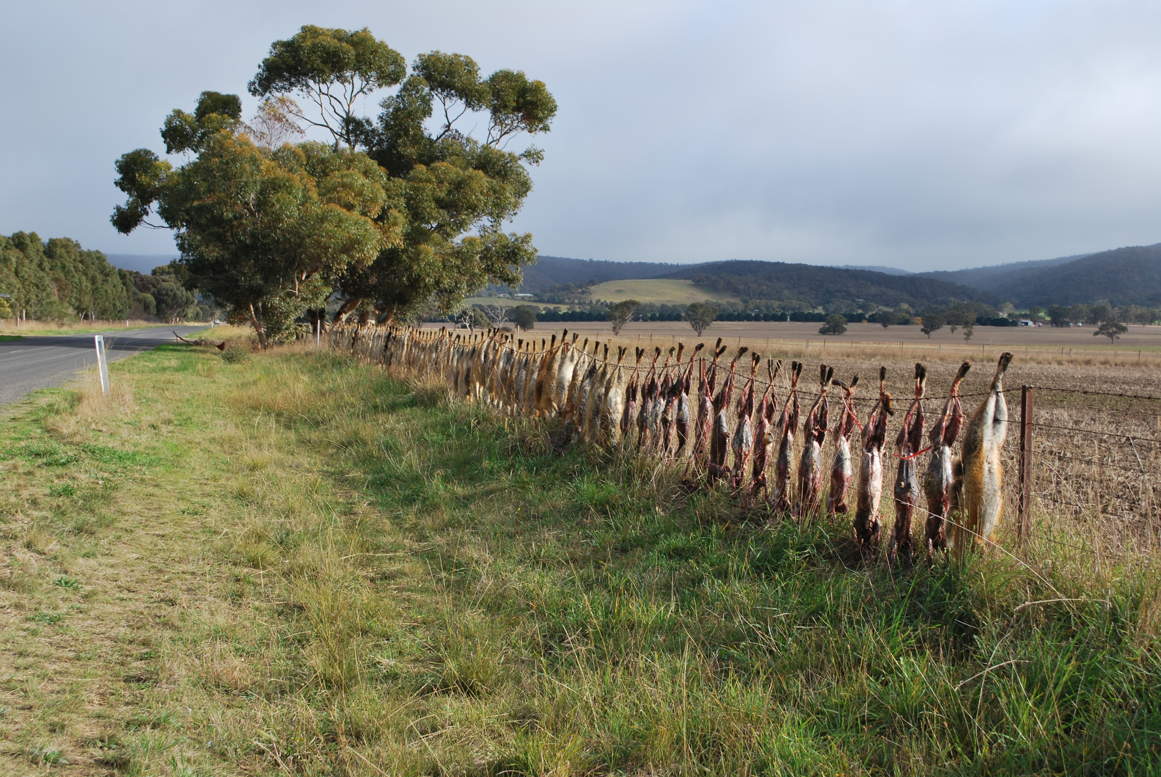 Dead foxes (Vulpes vulpes) displayed along a fence near Balliang, Victoria